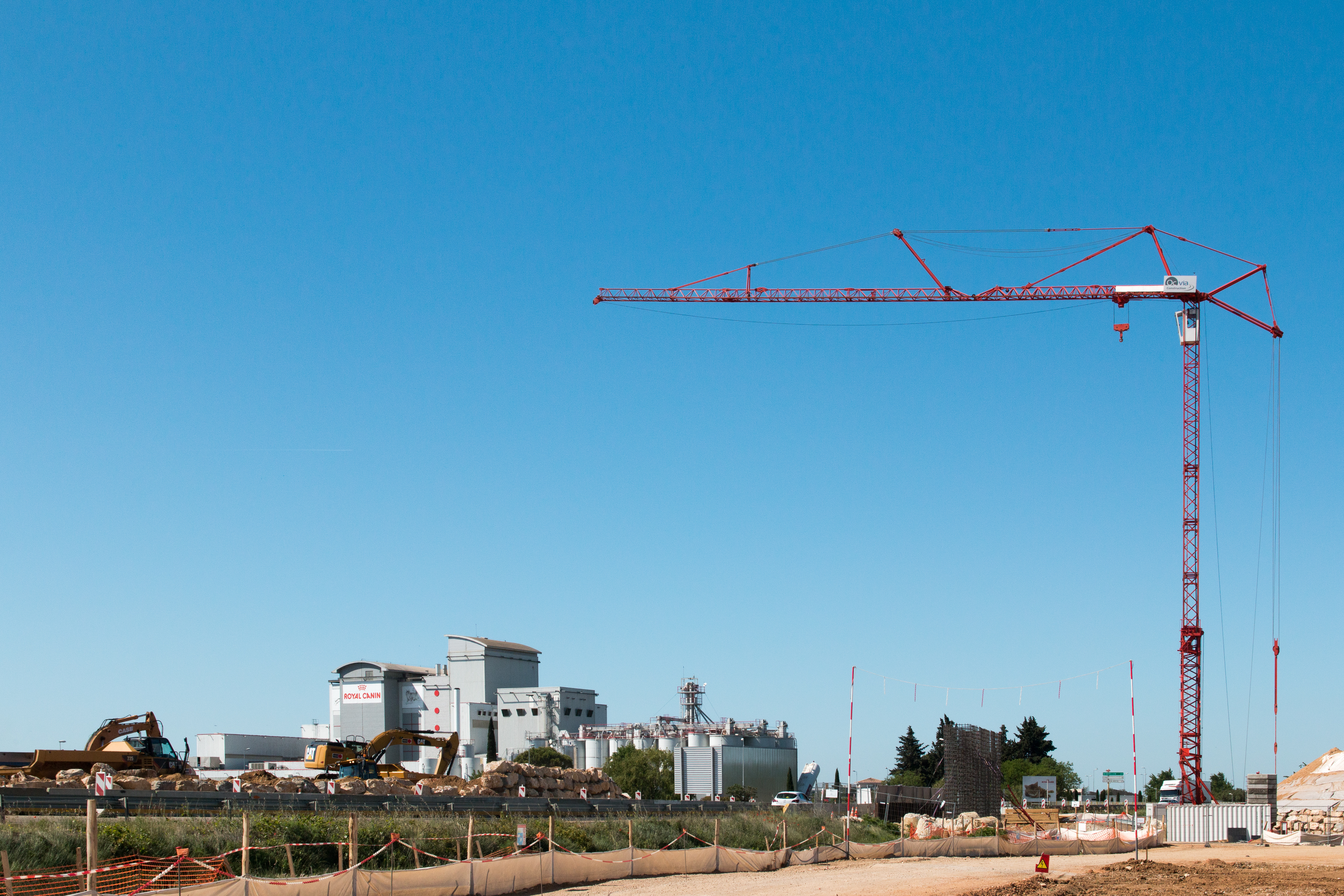 The Workshops Royal Canin.